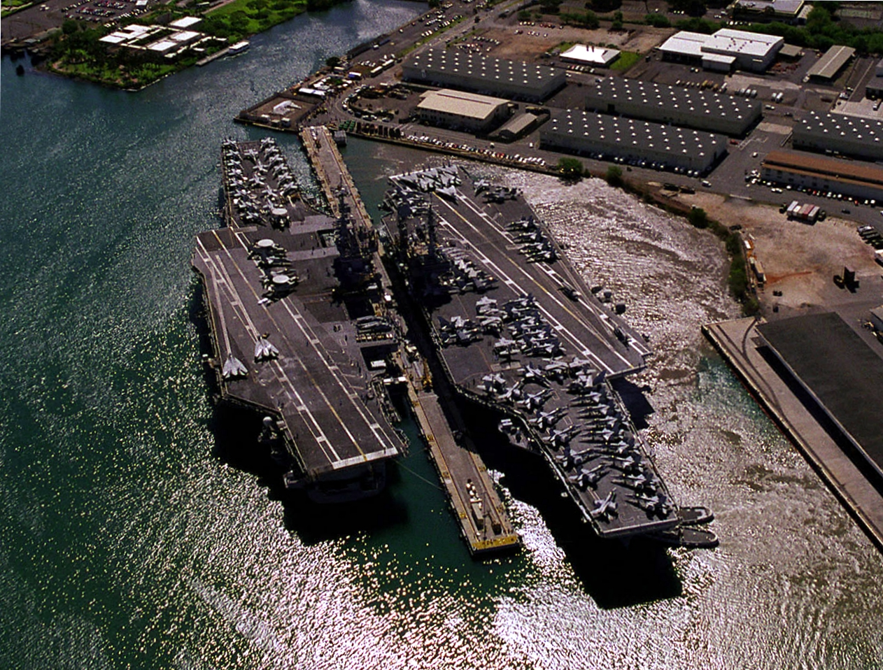 An aerial view of the U.S. Navy aircraft carriers USS Independence (CV-62), left, and USS Kitty Hawk (CV-63), right, tied up at the same dock during the exercise RIMPAC '98. Kitty Hawk was replacing Independence as the U.S. Navy's forward deployed carrier in Japan.